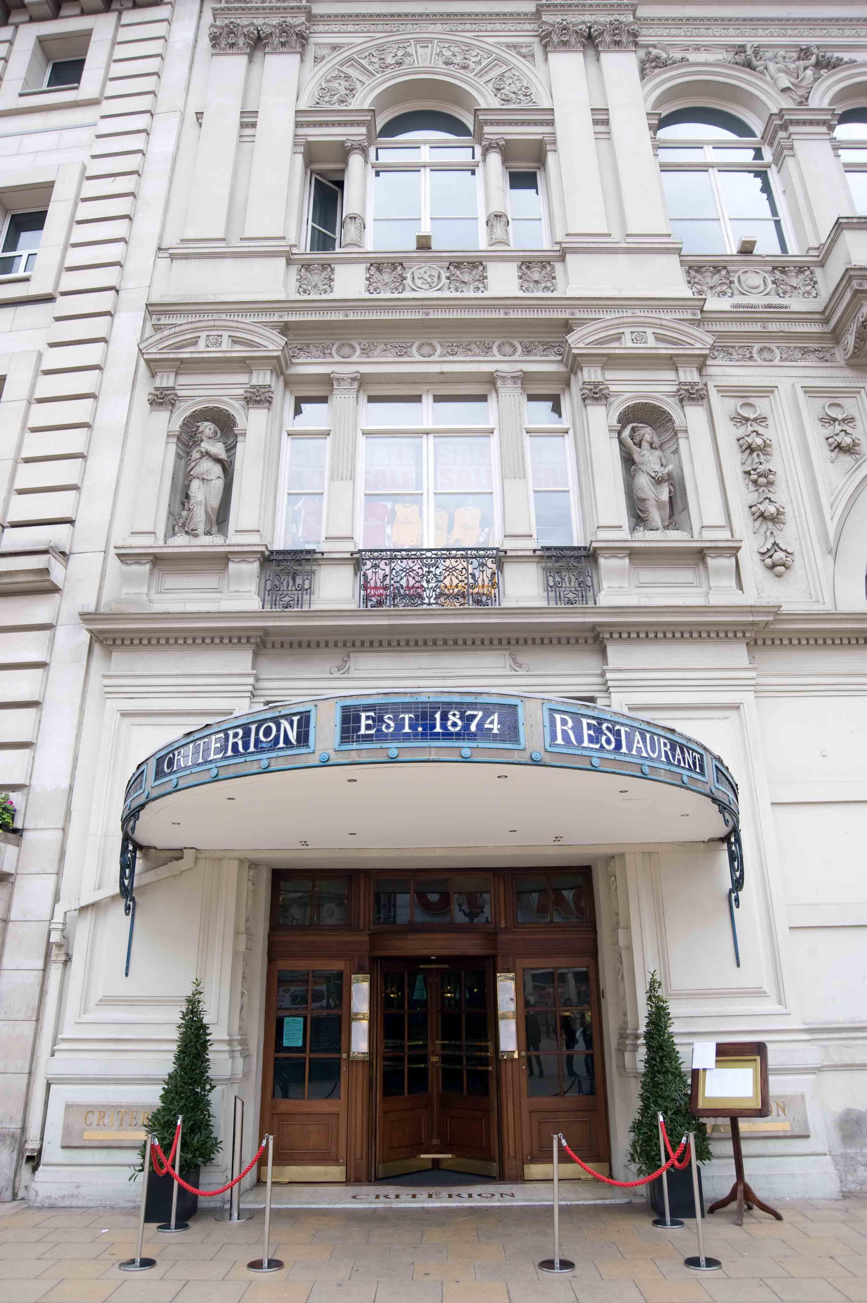 Thomas Verity original design for Criterion Front Entrance